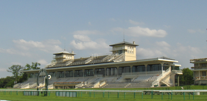 Chantilly racecourse grandstand.